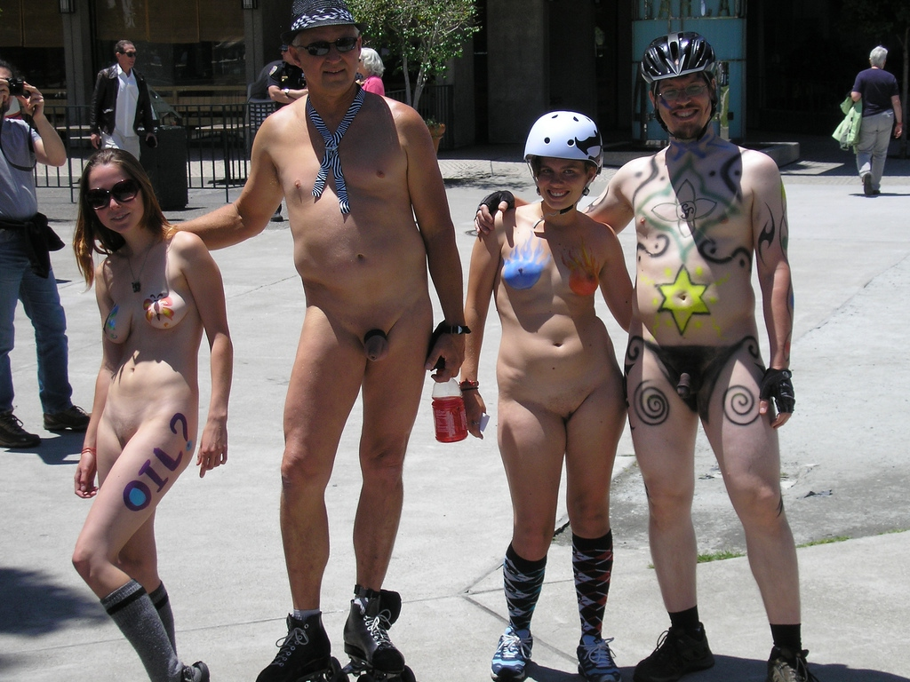 World Naked Bike Ride San Francisco 6-13-2009